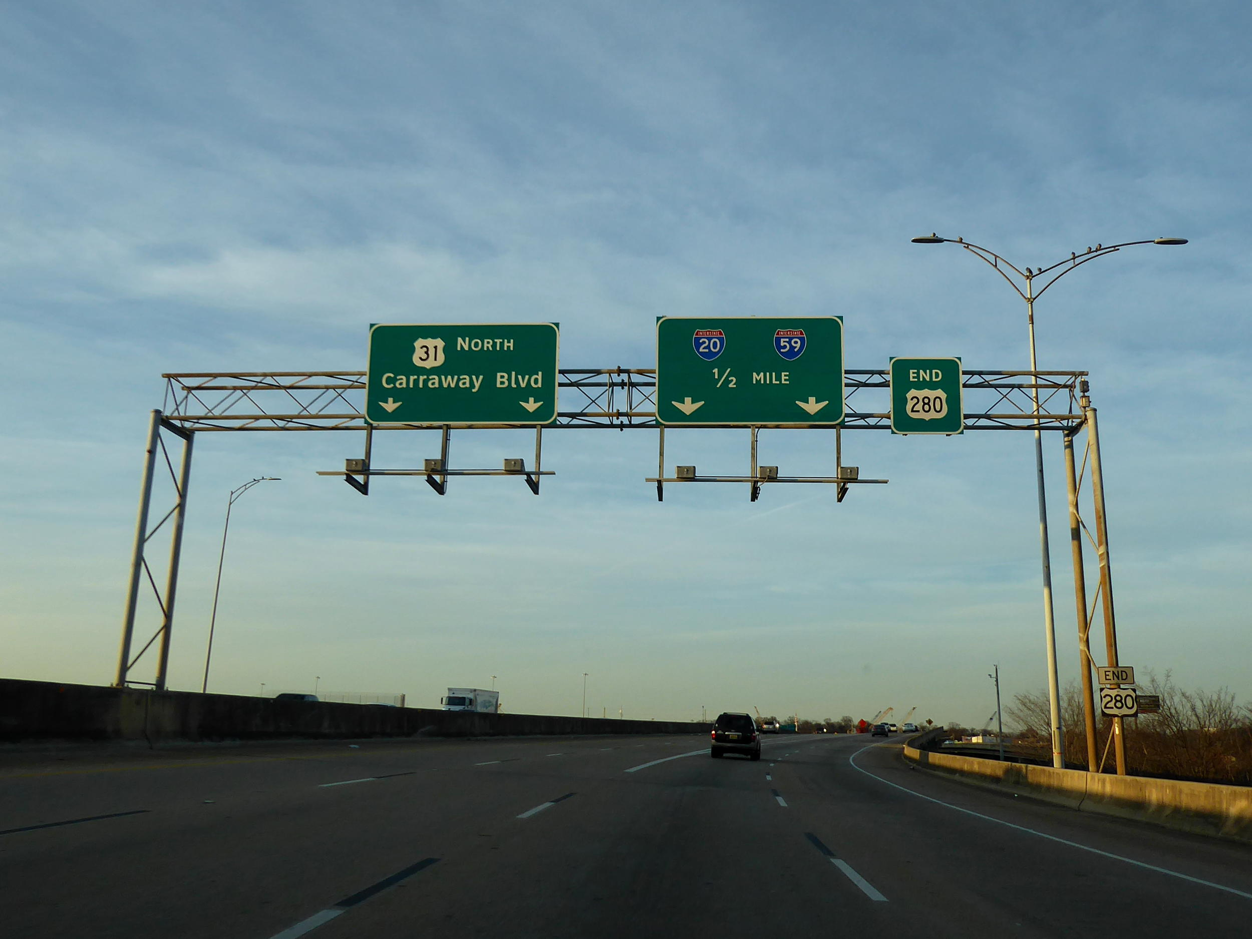 U.S. Route 280 western terminus at Interstates 20 & 59 in Birmingham, Alabama, USA. This is also the northern terminus of the Elton B. Stephens Expressway.